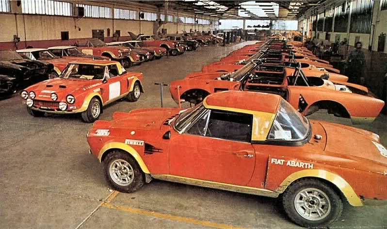 Abarth's racing department, in Turin (corso Marche), where it was processed Fiat 124 Abarth Rally in the 1970s.